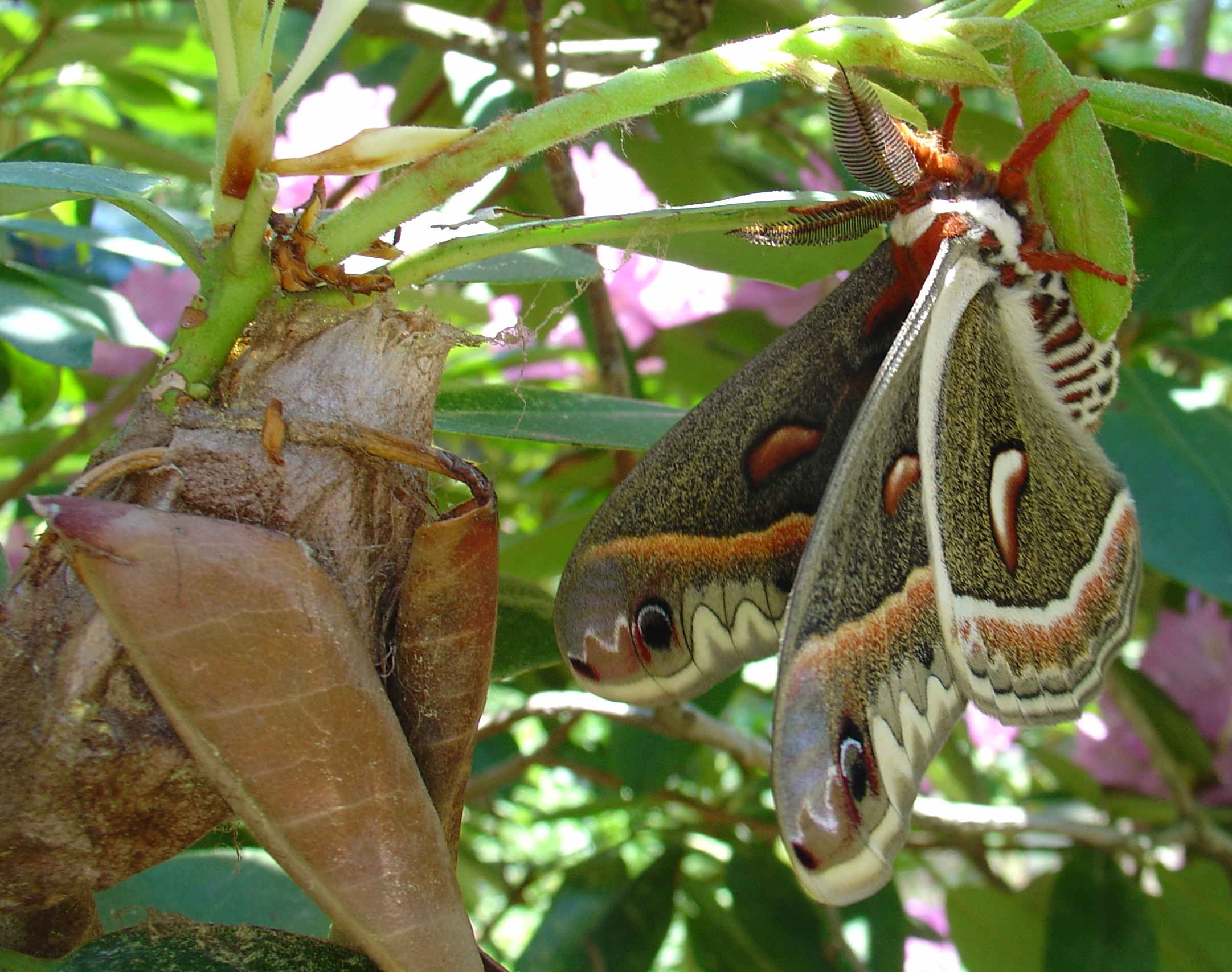 Newly emerged Hyalophora cecropia moth, male, hanging from a Rhododendron shrub in southern NJ, USA.